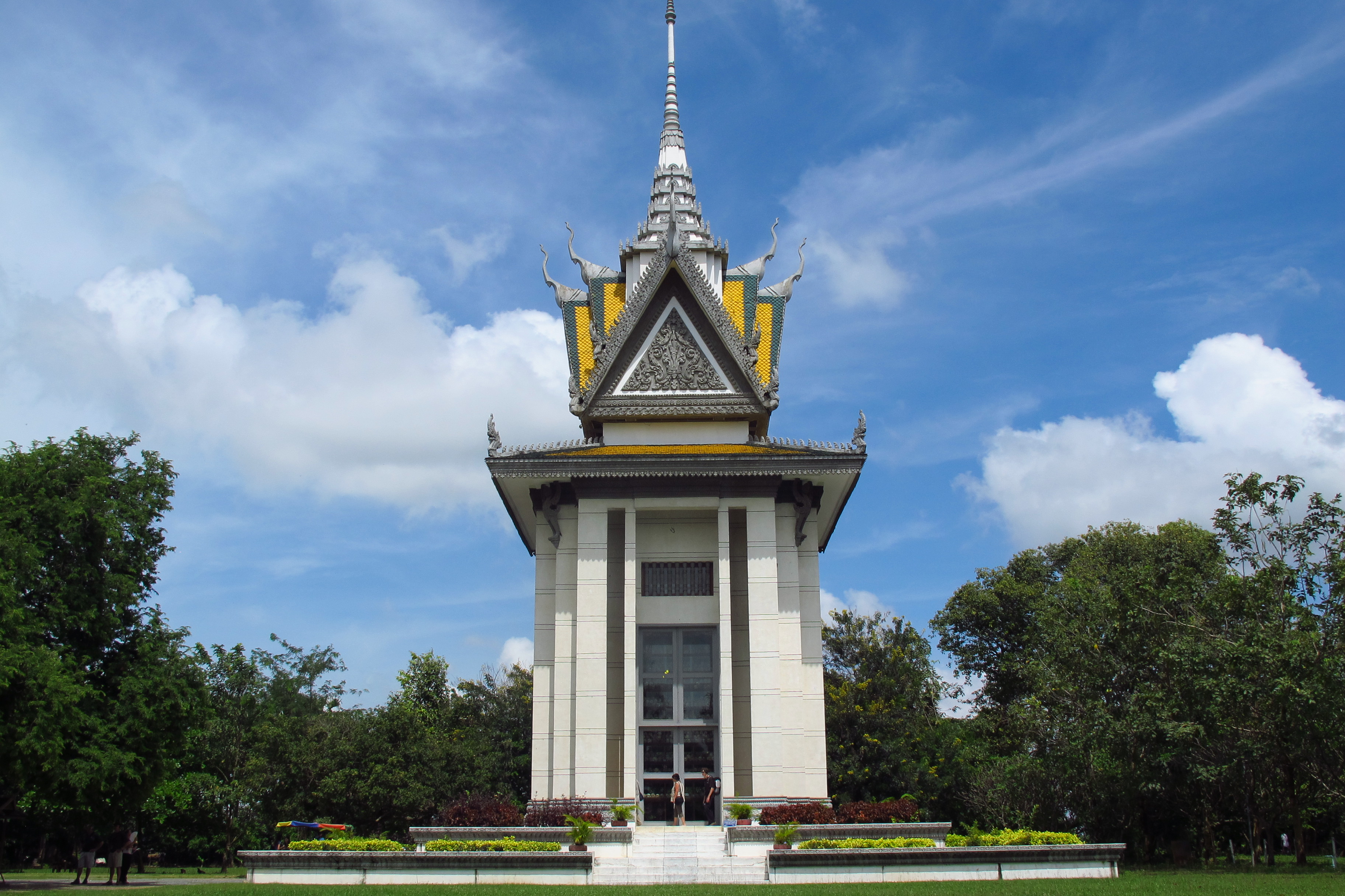 The Bhuddist Stupa at Choeung Ek, Cambodia, that houses thousands of skulls of the victims from the Khmer Rouge regime in the 1970's.